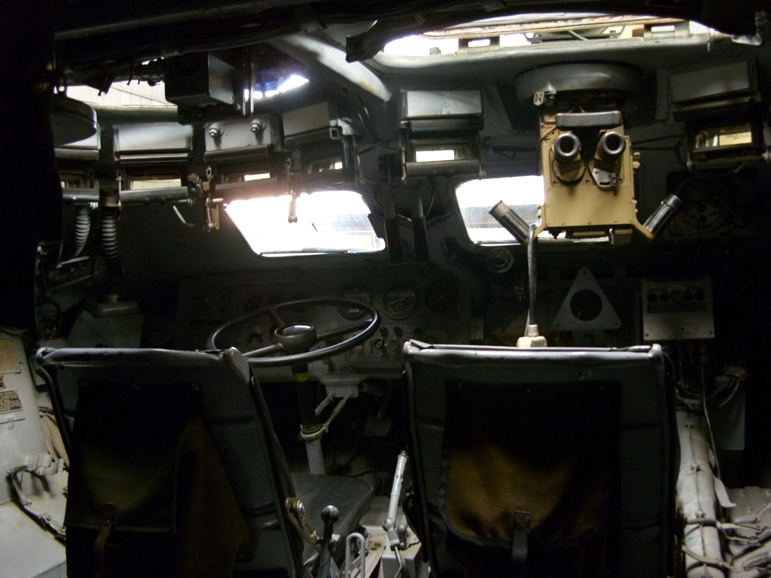 Interior of a BTR-80 amphibious armoured personnel carrier, driver's and commander's seat.